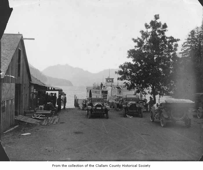 Creator: Wheeler, John D. Description: Lake Crescent ferry Storm King at Fairholme [Clallam County Historical Society note]. Signs in image include: Clallam County Ferry Rates on Lake Crescent, Automobiles 75 [cents], Passengers 15 [cents]. On boat in image: Storm. On front of photo: Fairholme, Lake Crescent, Wn. Wheeler Photo. Photographer name taken from text on image and from University of Washington, Special Collections Division digital Postcard Collection, image titled 'Leavenworth, Washington, 1912. Date provided by Community Museum Project staff.